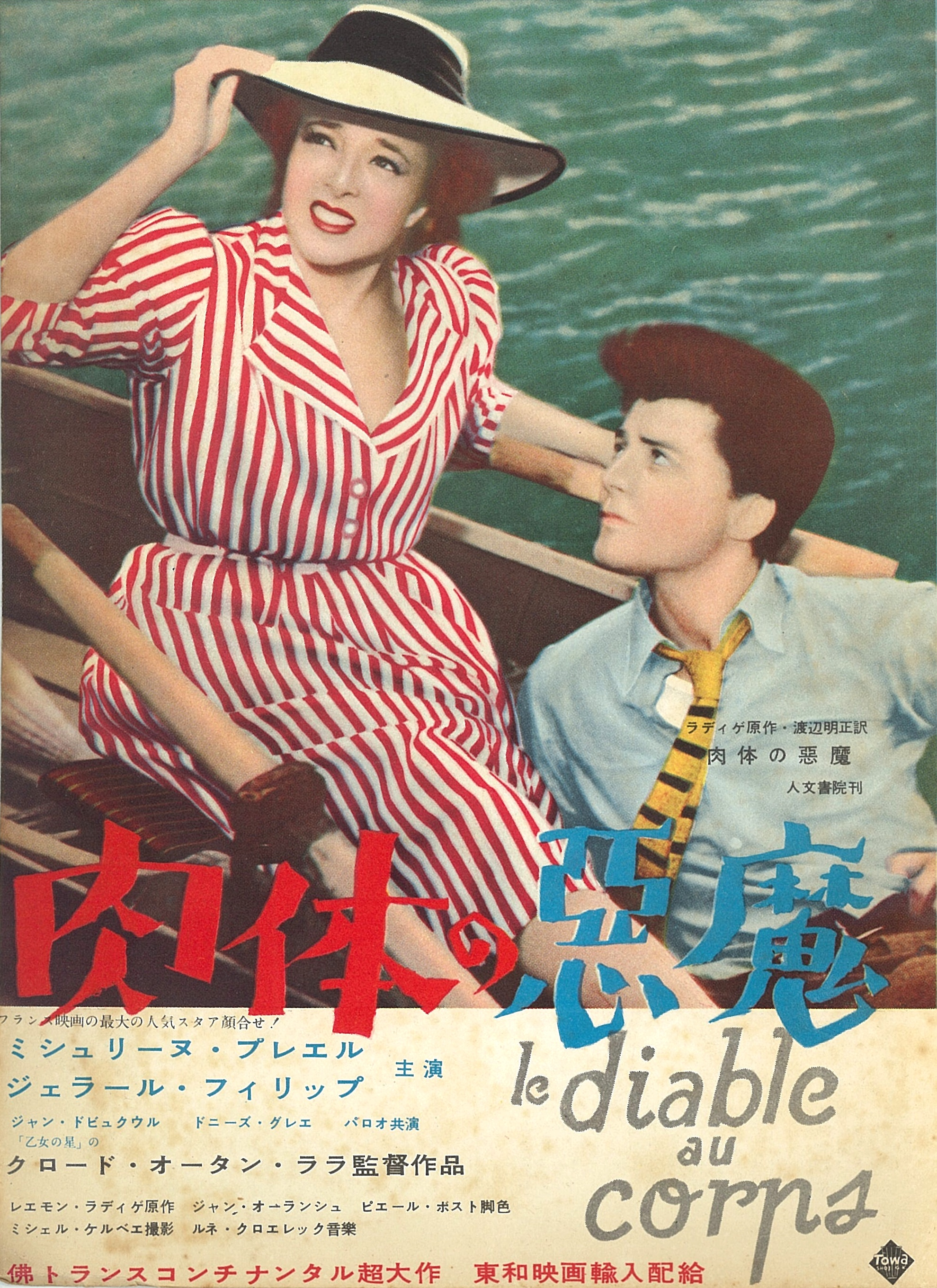 The movie poster of "Le Diable au corps" (肉体の悪魔) from Eiga no Tomo (November 1952)